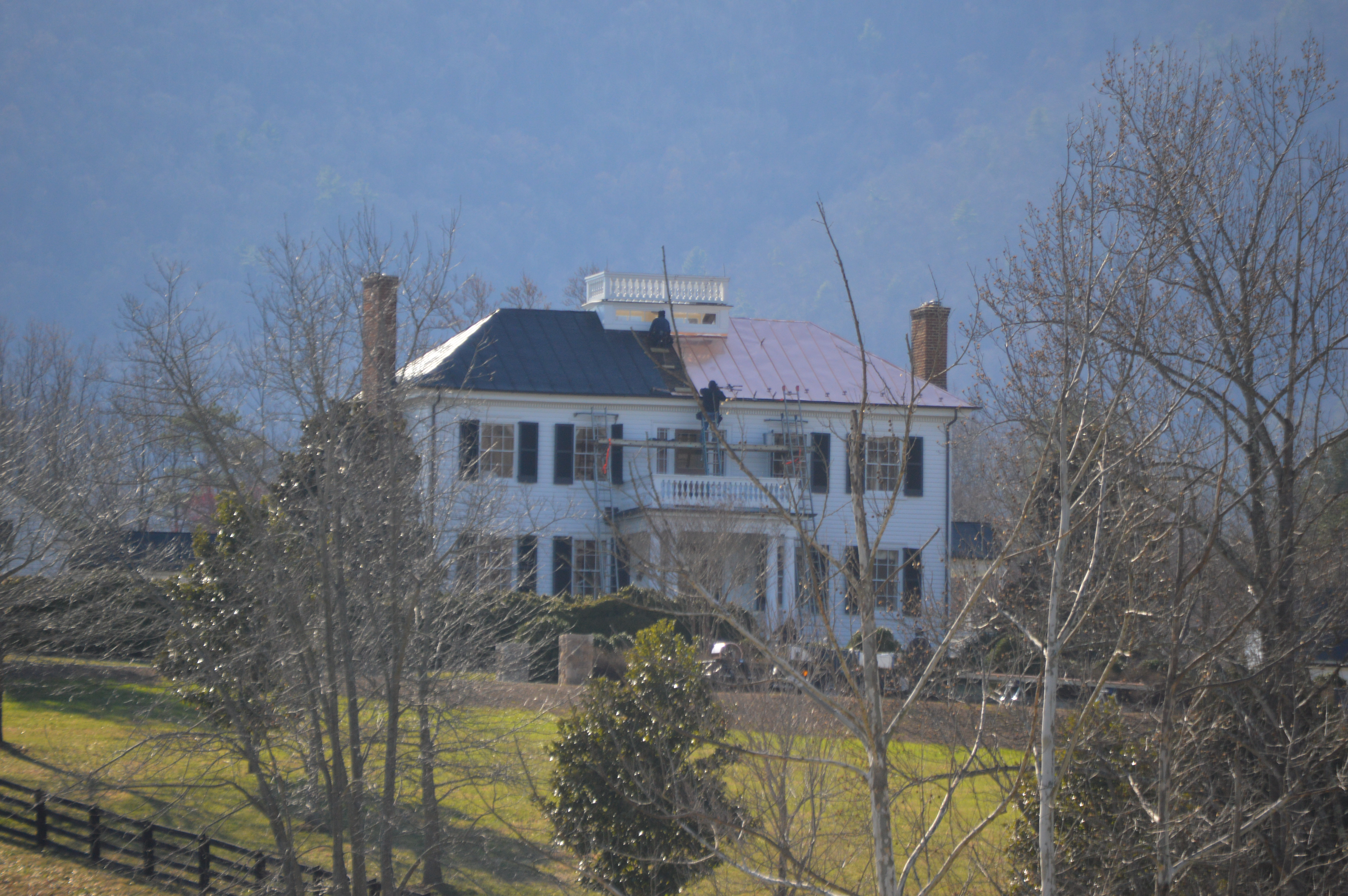 Front of Mount Fair, located on Slam Gate Road north of Crozet in Albemarle County, Virginia, United States. Built in 1848, it is listed on the National Register of Historic Places.